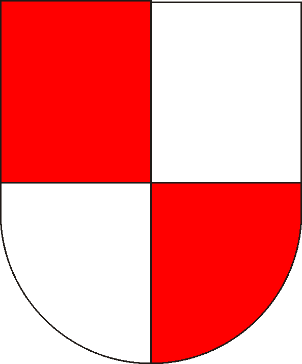 Coat of arms